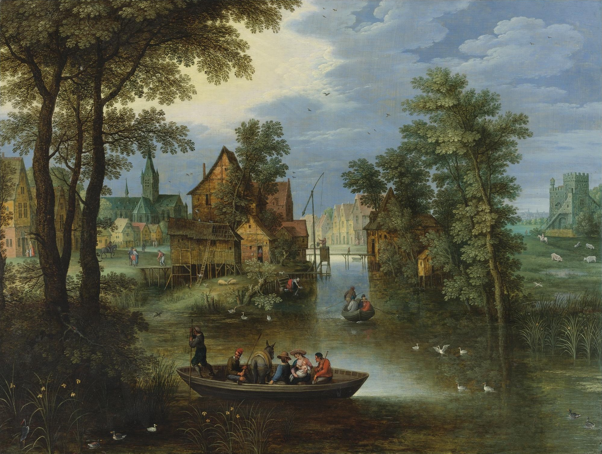 River landscape with religious theme 'Flight into Egypt'.